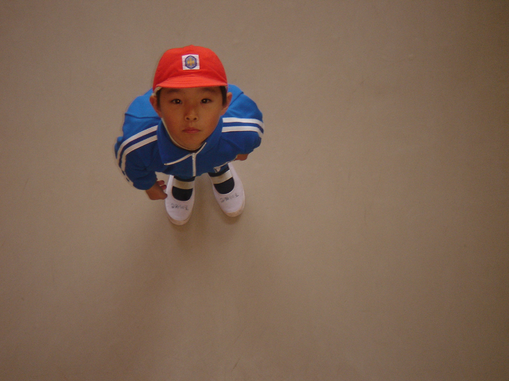 Boy from above